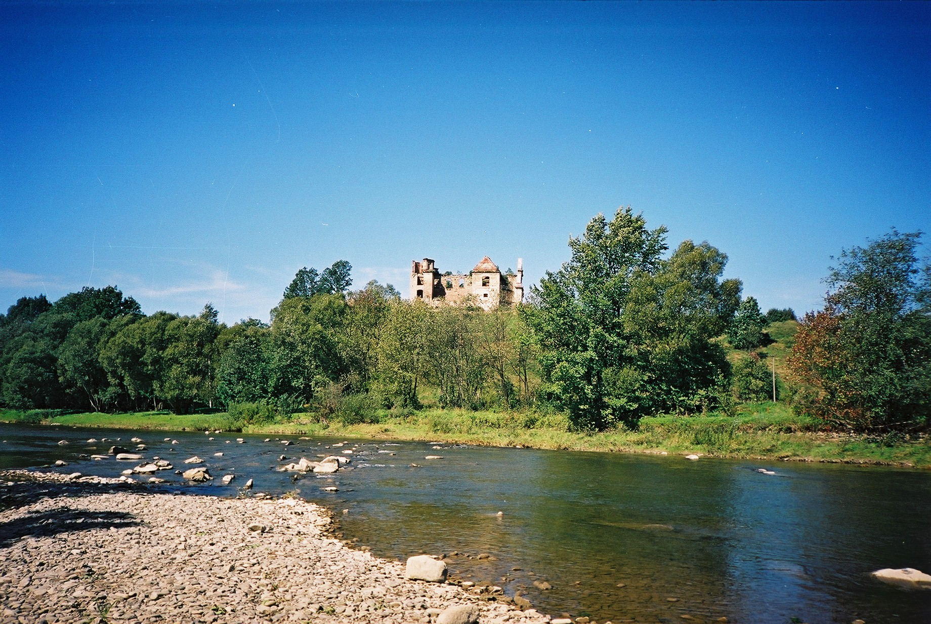 rzeka